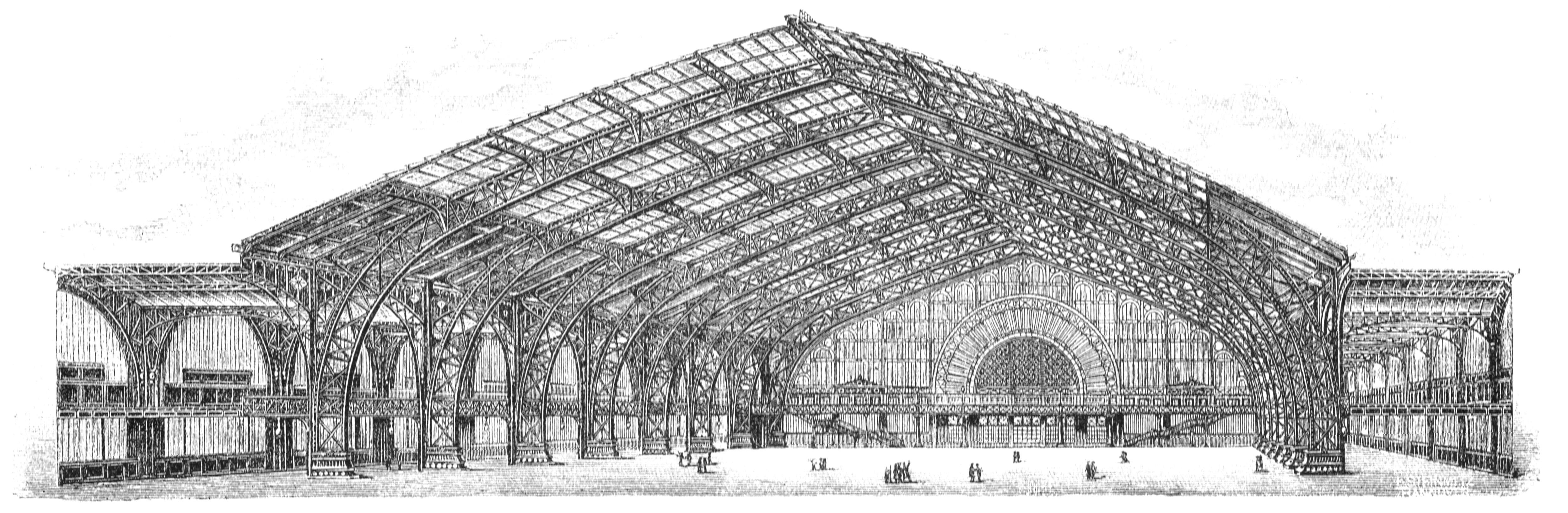 Paris - Exposition Universal 1889, machine hall, interior view